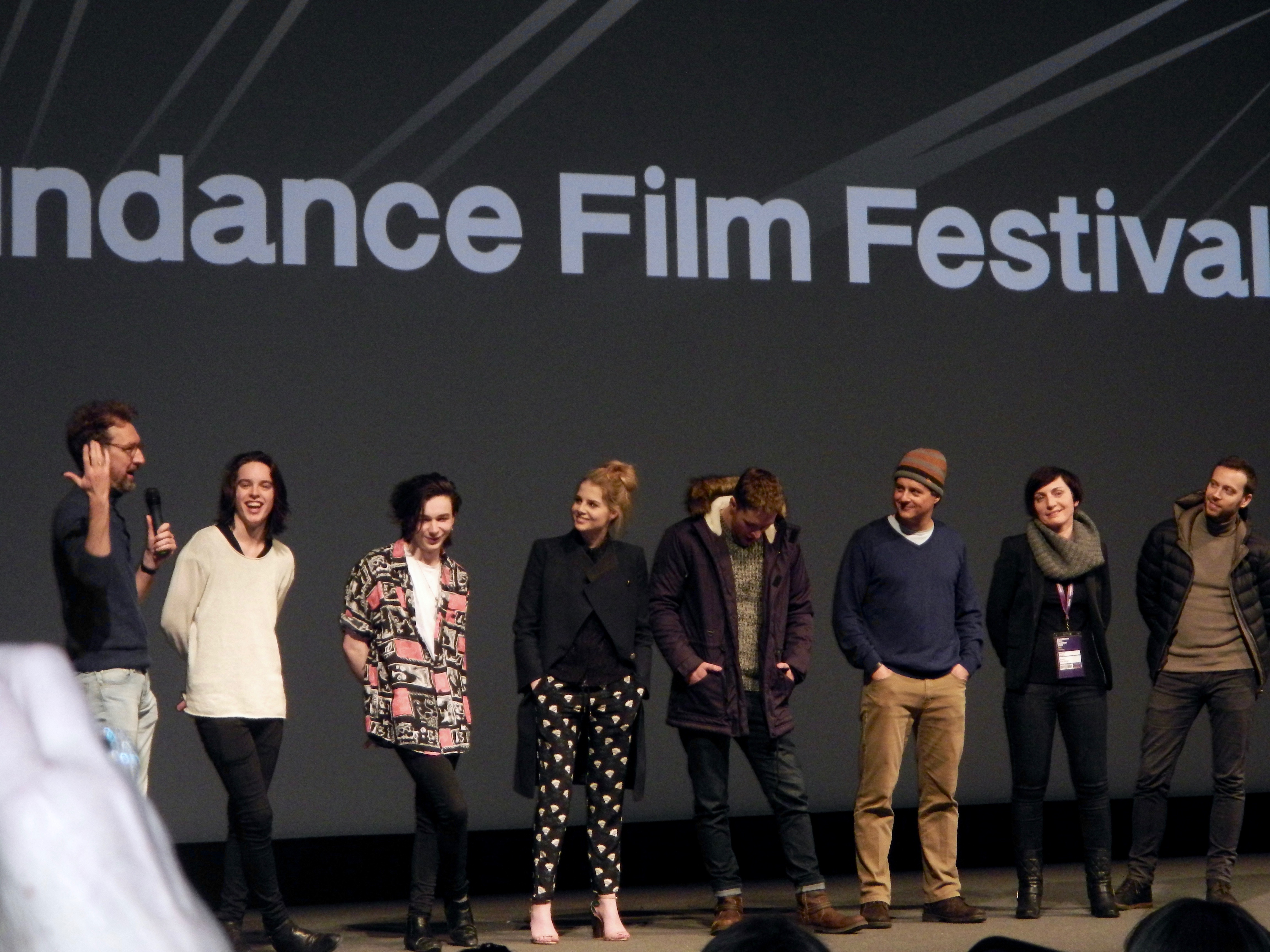 Sundance 2016, Park City UT